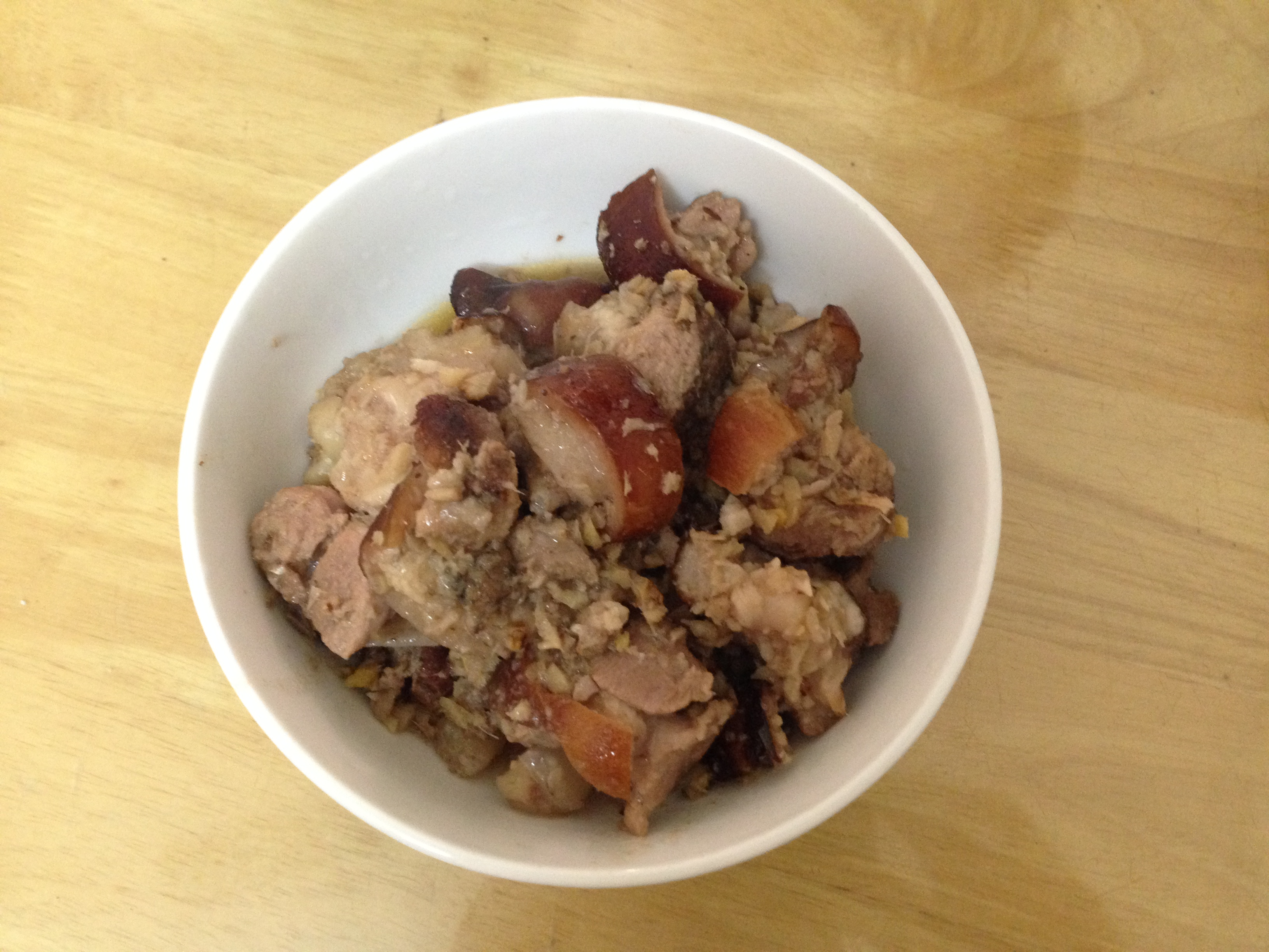 Pork knuckle is stewed with shrimp paste, galangal and other Vietnamese condiments. The name "Giả cầy" literally means "Fake dog meat".